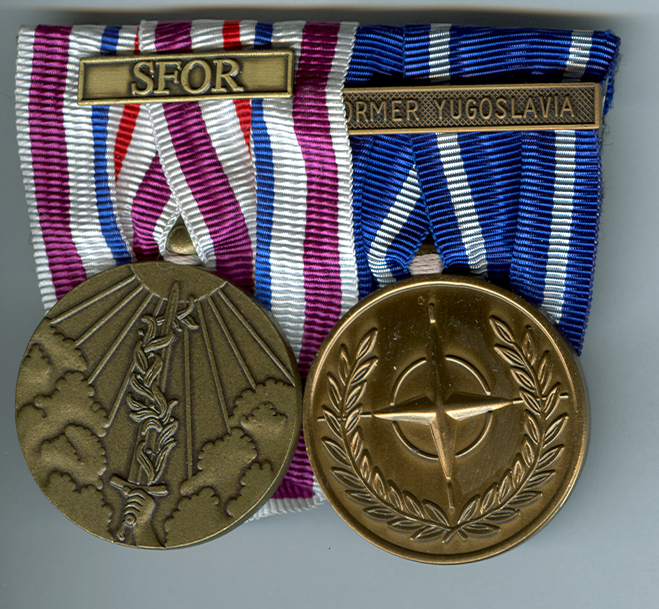 Dutch Peace Support Operations medal + NATO medal